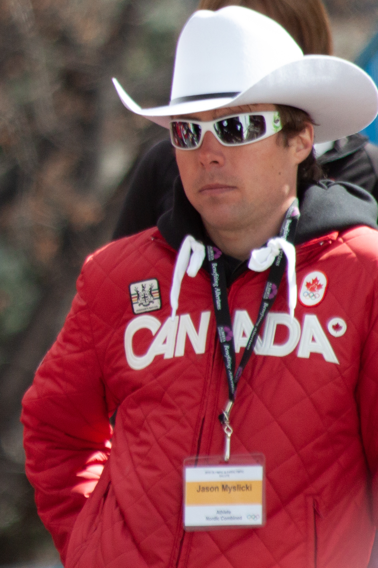 This is Olympic athlete Jason Myslicki at Olympic Plaza in Calgary Alberta on April 5, 2010. He is attending a public party to celebrate athletes who competed in the 2010 Winter Olympics.